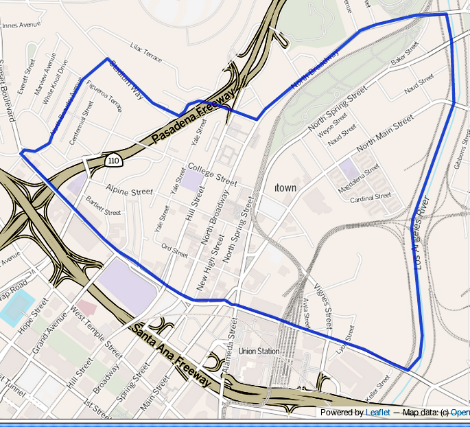 Map of the Chinatown district of Los Angeles, California. As delineated by the Los Angeles Times